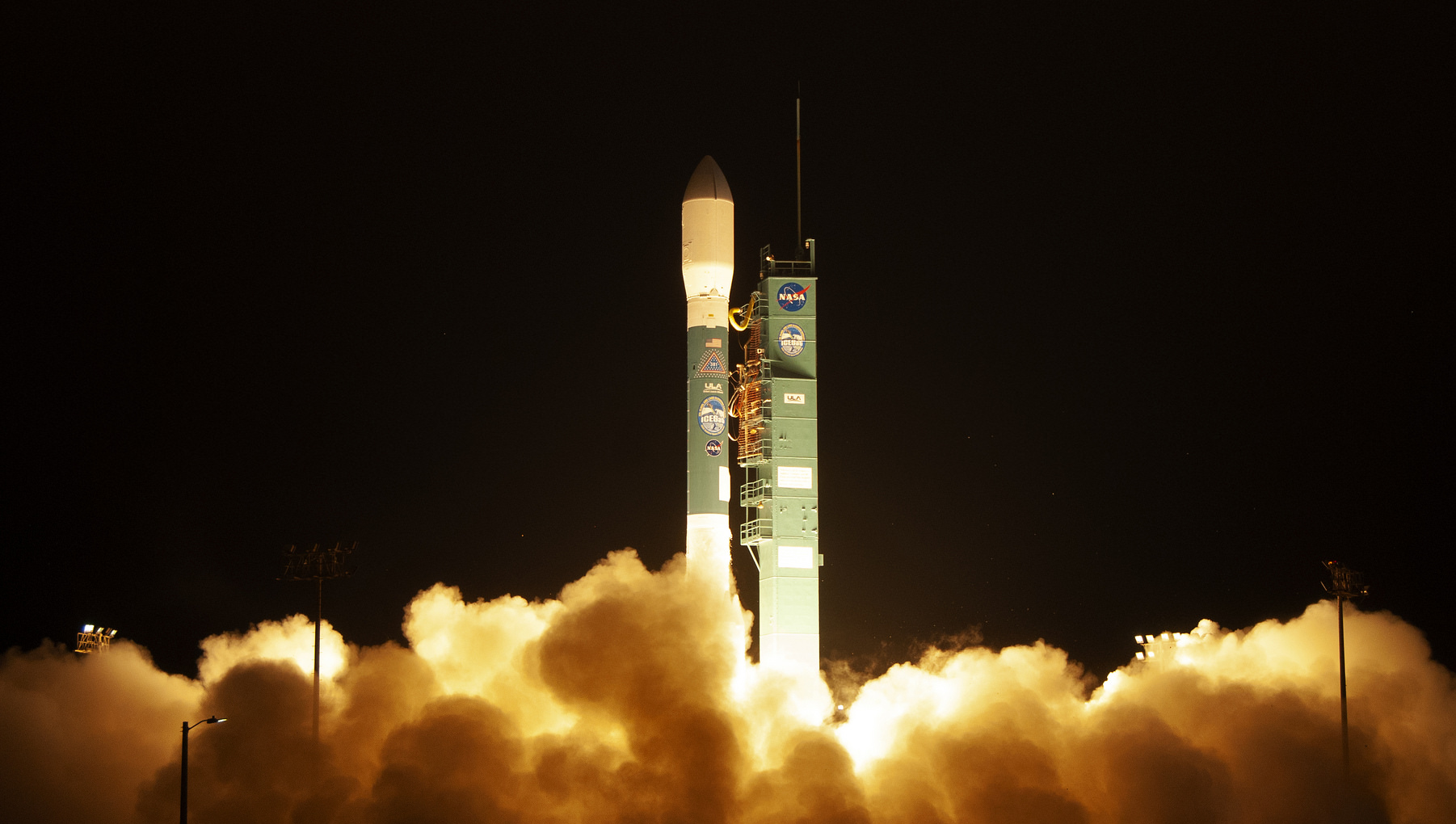 Delta II launches with ICESat-2